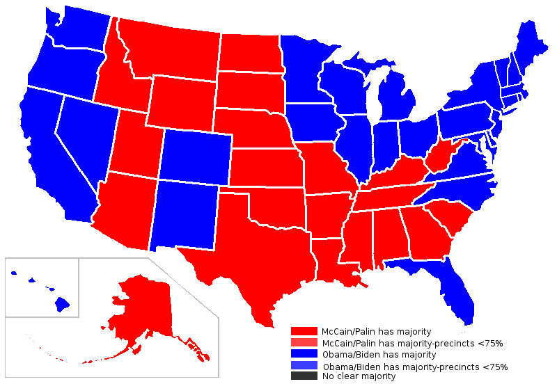 Results of the popular vote results of the US 2008 President Elections. Prior to January, it will also show the projected Electoral College results. Spitfire19 will update as new numbers come in. Current result based off United States presidential election, 2008#Results by state table & most recent news source. If the most recent results have less than 3% difference and less than 75% of the votes have been counted in the state will be colored dark gray. Ties by nearest integer percent are not colored until 100% of states votes are in.